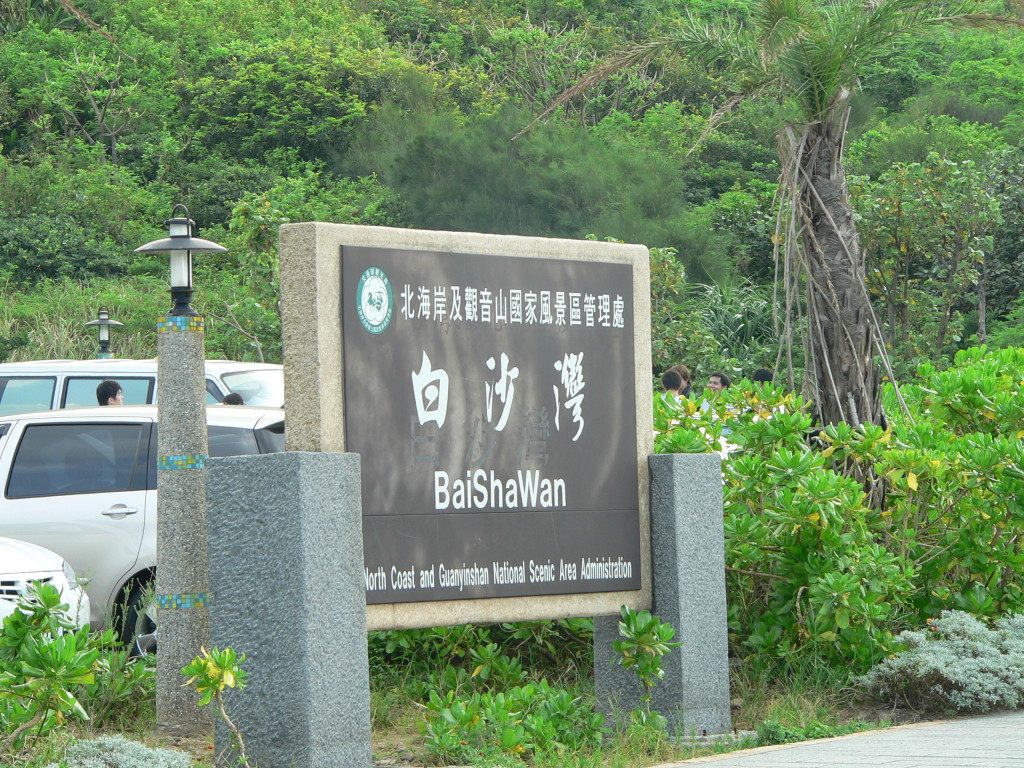 Baishawan stele. Made by North Coast & Guanyinshan National Scenic Area Administration, Tourism Bureau, Ministry of Transportation and Communications.